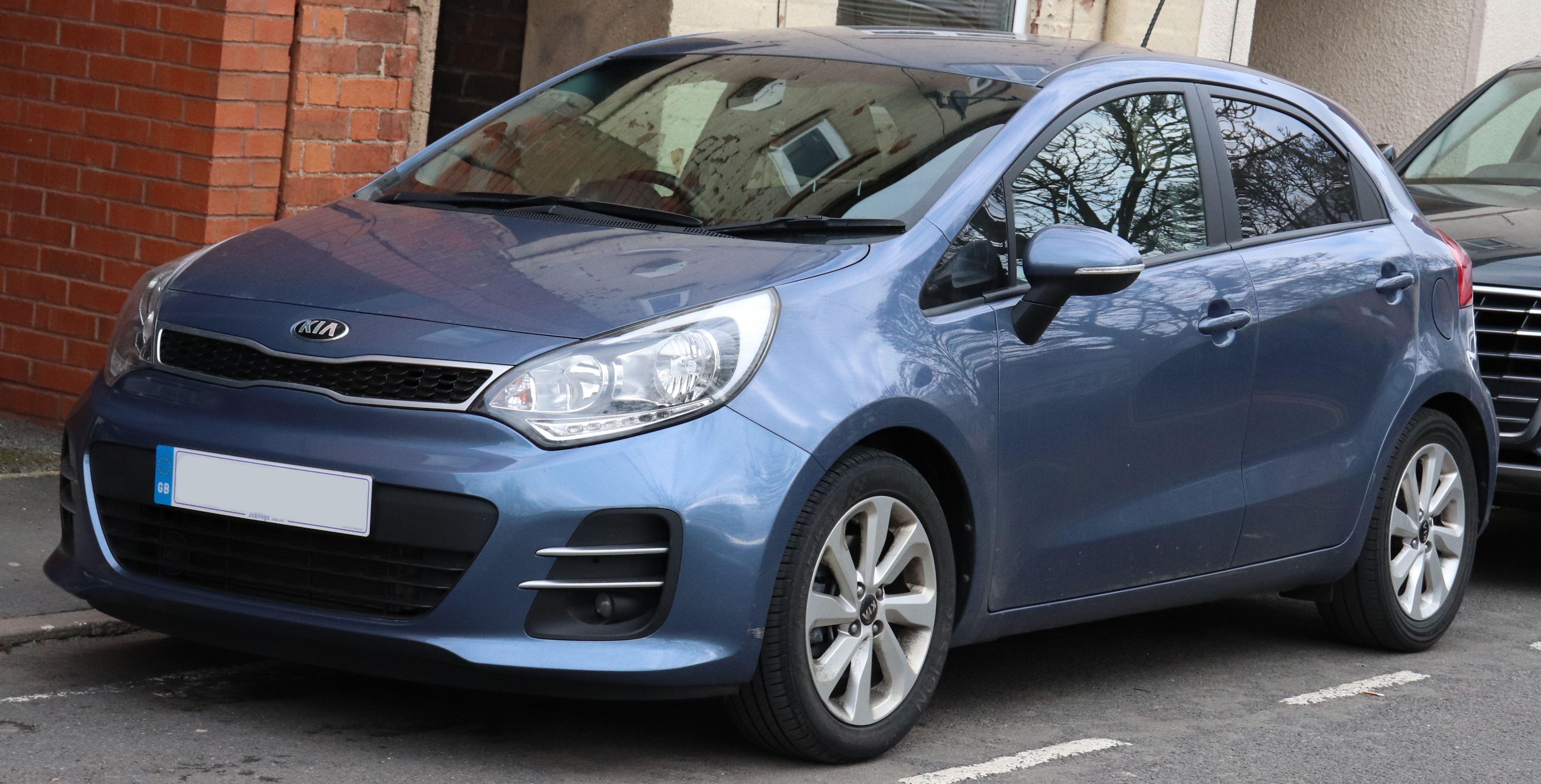 2015 Kia Rio 2 ISG CRDi facelift 1.4 Taken in Leamington Spa